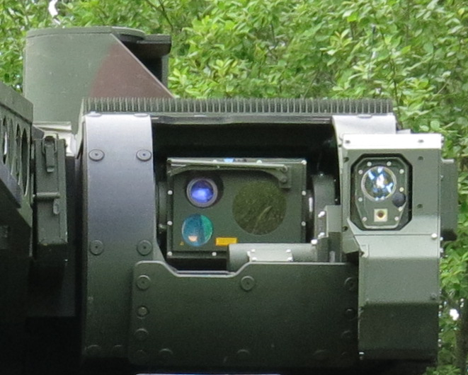 center: Electro optical targeting system aka WAO station (gunners sight) of Puma IFV, right: MUSS front sensor, Open day at German Army Training Centre, Munster 2015